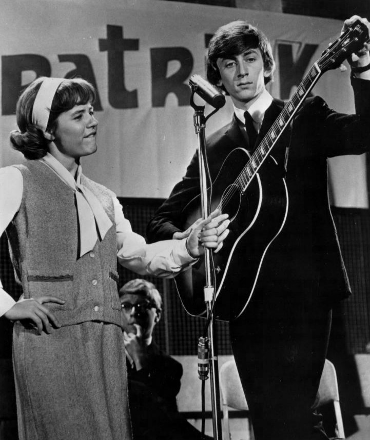 Photo of Patty Duke and Jeremy Clyde, half of the singing duo Chad and Jeremy, from The Patty Duke Show.